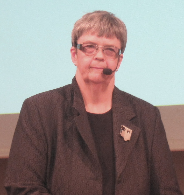 Swedish mechanichal engineer and University professor Gunilla Jönson.